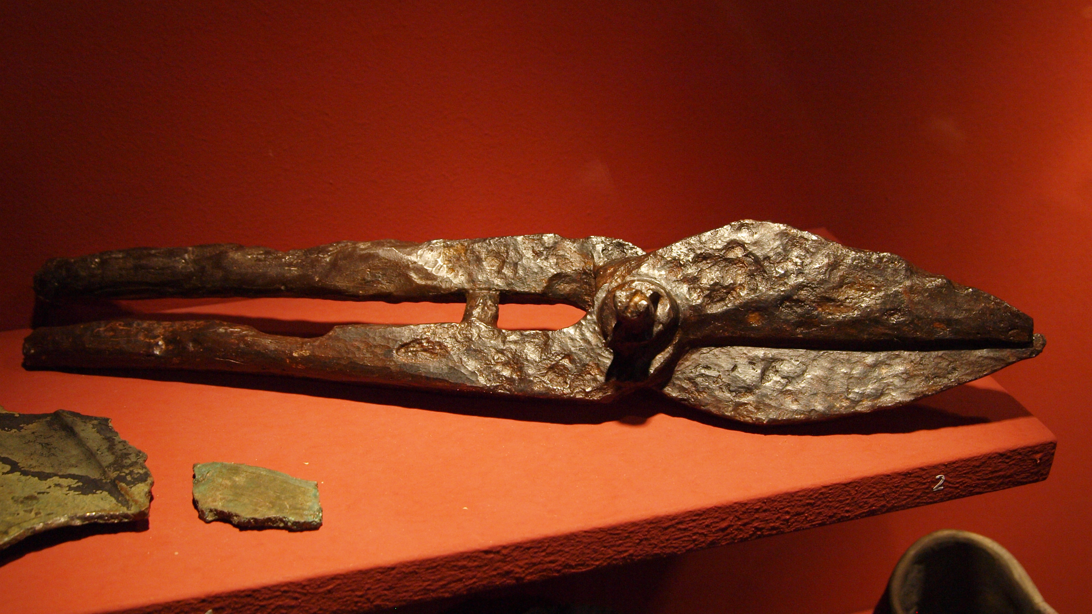 Antique Roman offset tinner's snips. Found in a Roman castle in Straubing, Bavaria, Germany. Dated to approx. 1st to 4th century A.D. Photographed at Gäubodenmuseum, Straubing, Germany.